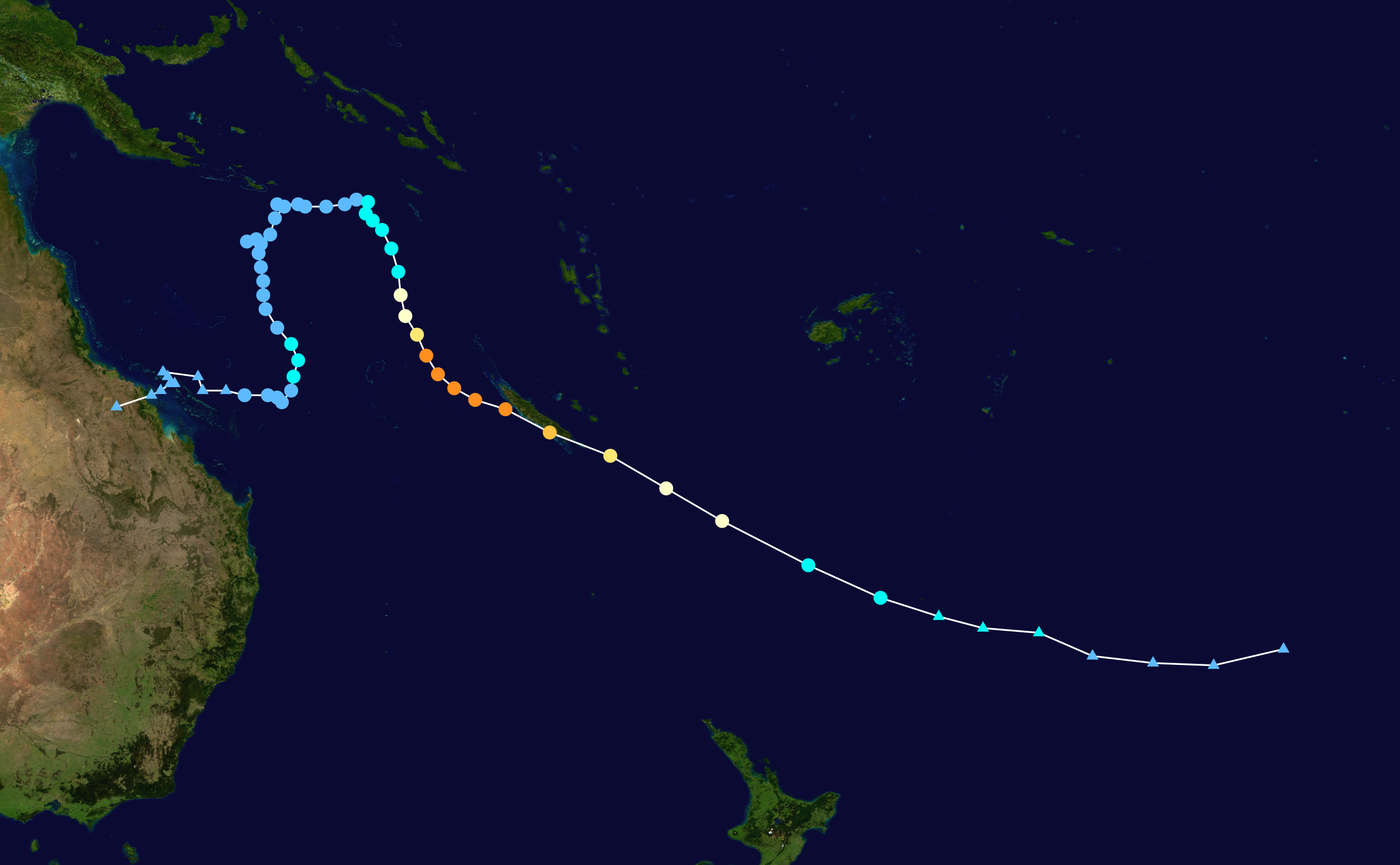 Cyclone Erica (2003) track. Uses the color scheme from the Saffir-Simpson Hurricane Scale.